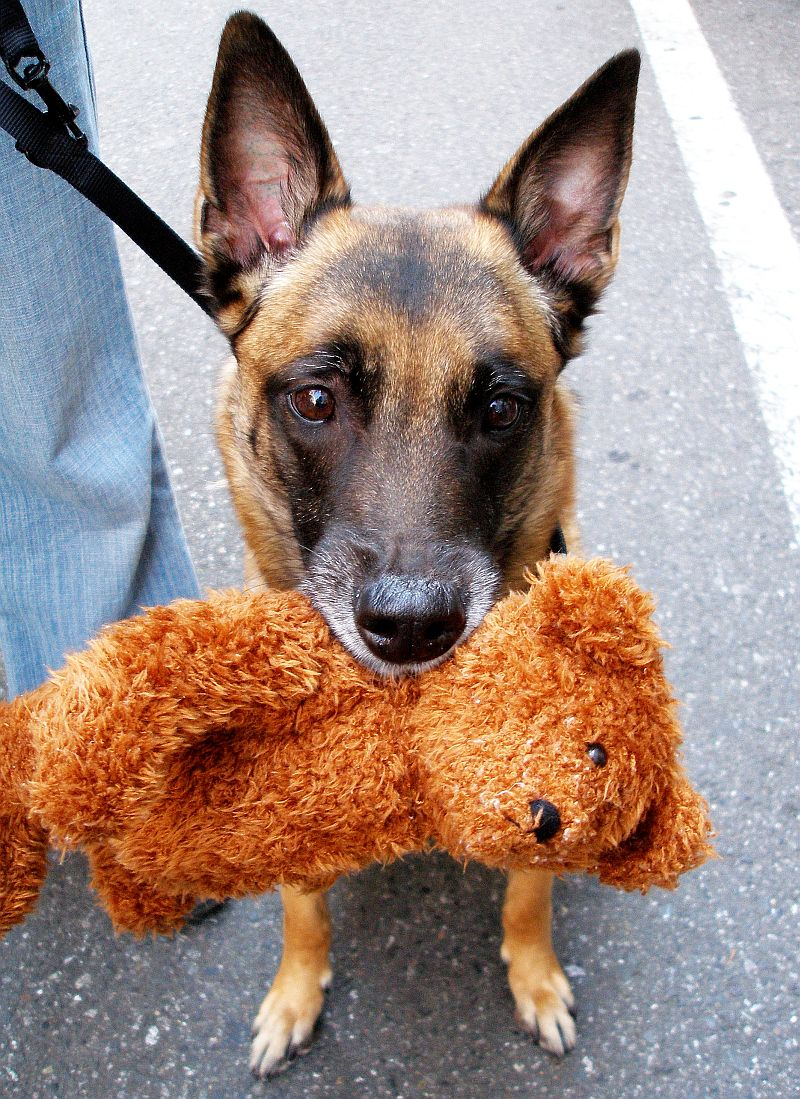 A Belgian Malinois holding a teddy bear.